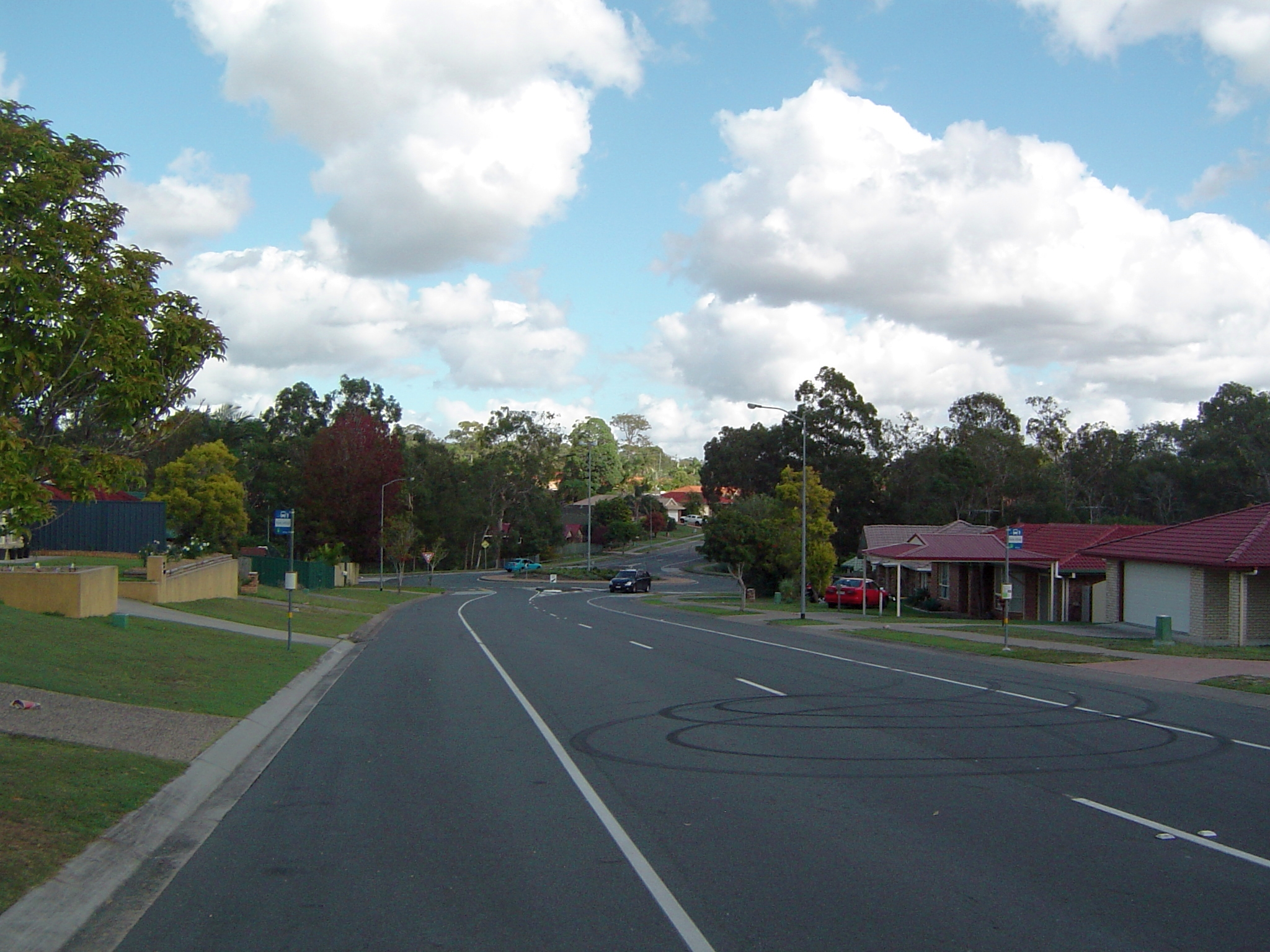 Photo of homes and Lamberth Road at Regents Park, City of Logan, Queensland, Australia.